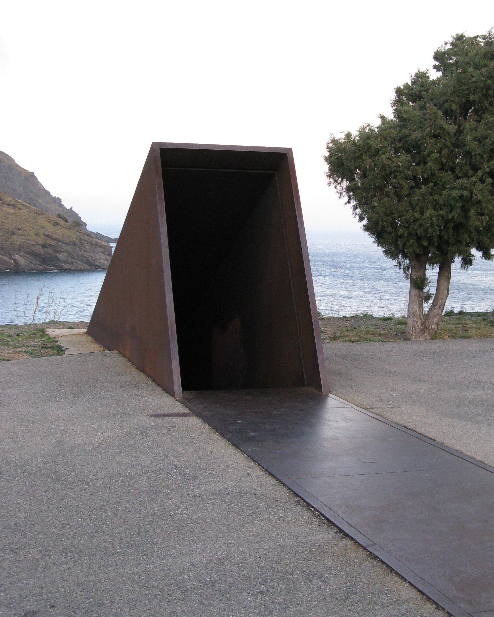 Walter Benjamin Memorial at Portbou of the artist Dani Karavan